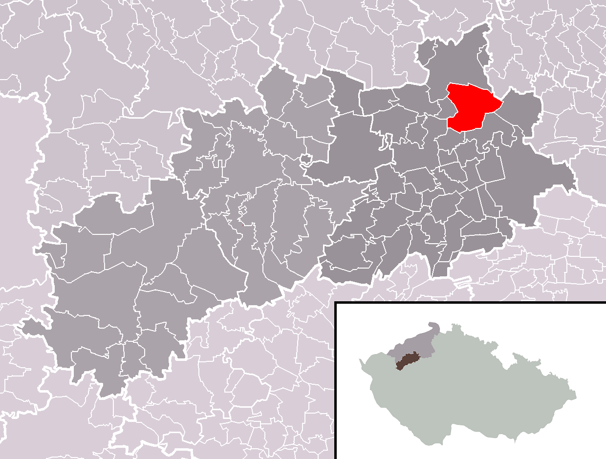 Location of Chožov municipality within Louny District and administrative area of Louny as a Municipality with Extended Competence.